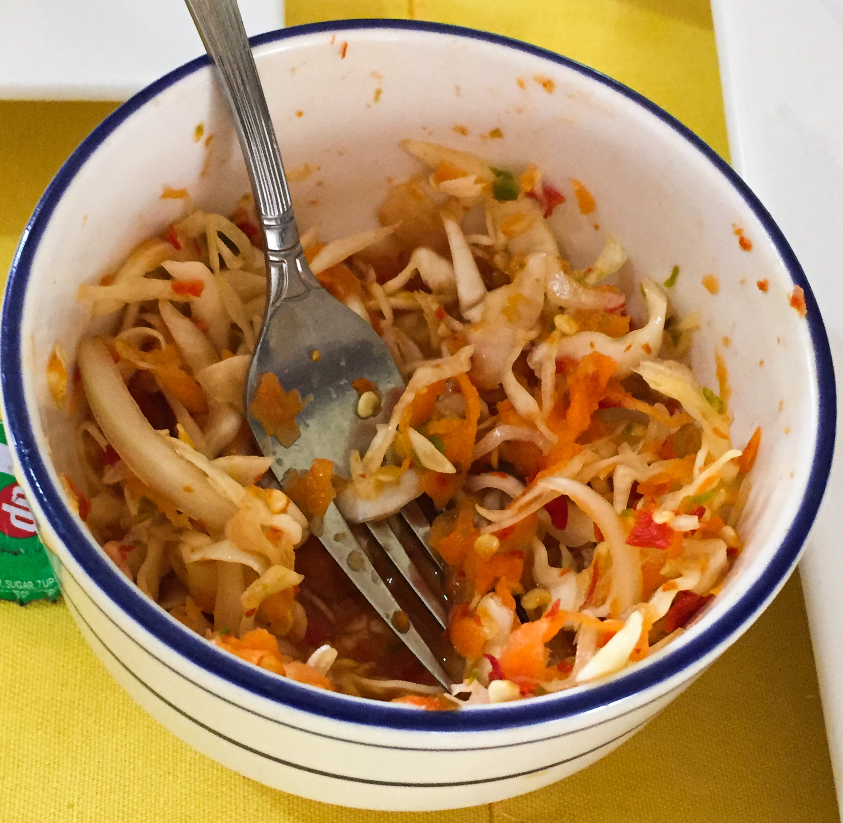 Pikliz